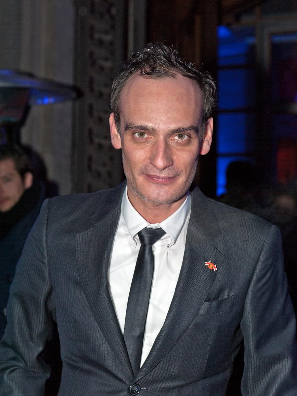 Anatole Taubman, Swiss actor, Berlinale 2012, ARD Degeto Blue Hour Party